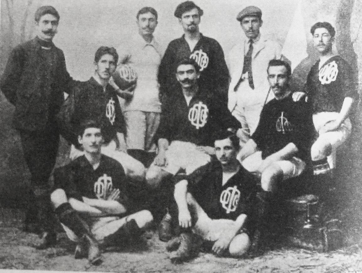 The football team of "Salonica Society of Friends of music" (greek: "Όμιλος Φιλομούσων Θεσσαλονίκης"). Misidentified at the source book as the Greek national football team on Olympic games of 1906.